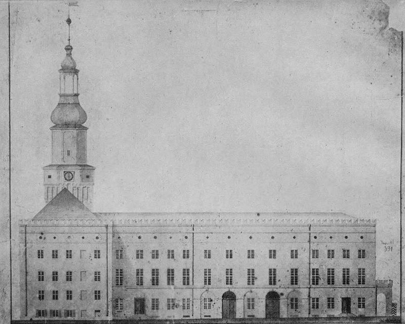 The Town Hall in Opole 1810-1830